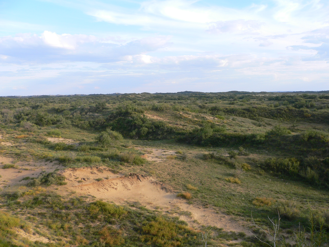 Hunshandake Sandy Land